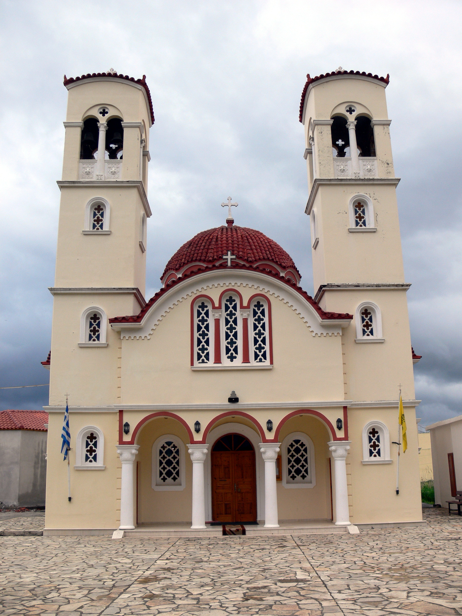 Georgiupolis ( Crete ). Parish church.